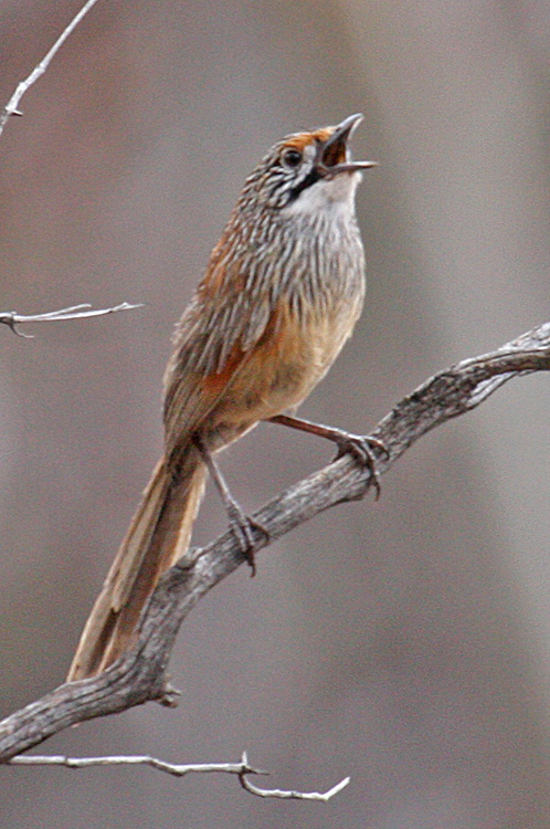 Striated Grasswren (Amytornis striatus). 23/10/2007 Gluepot Reserve